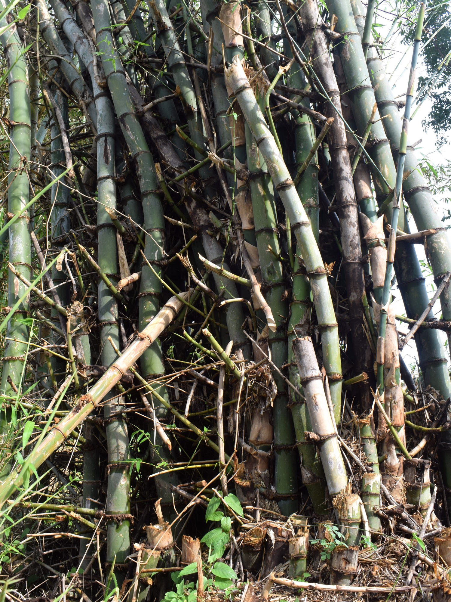 Thorny bamboo, Bambusa blumeana; dense tuft. From Lumajang, East Java, Indonesia.